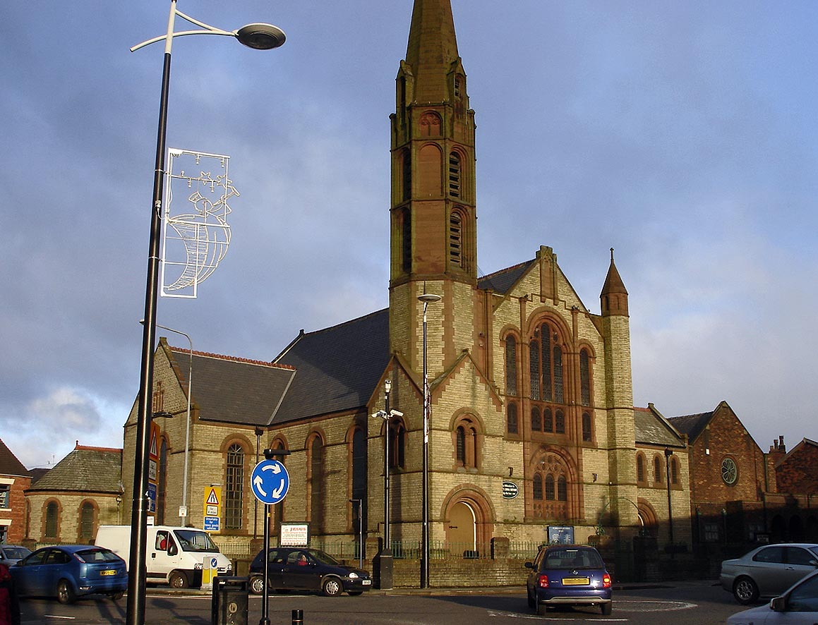 St John's Methodist Church, Market Street, Hindley, Greater Manchester, seen from the southwest